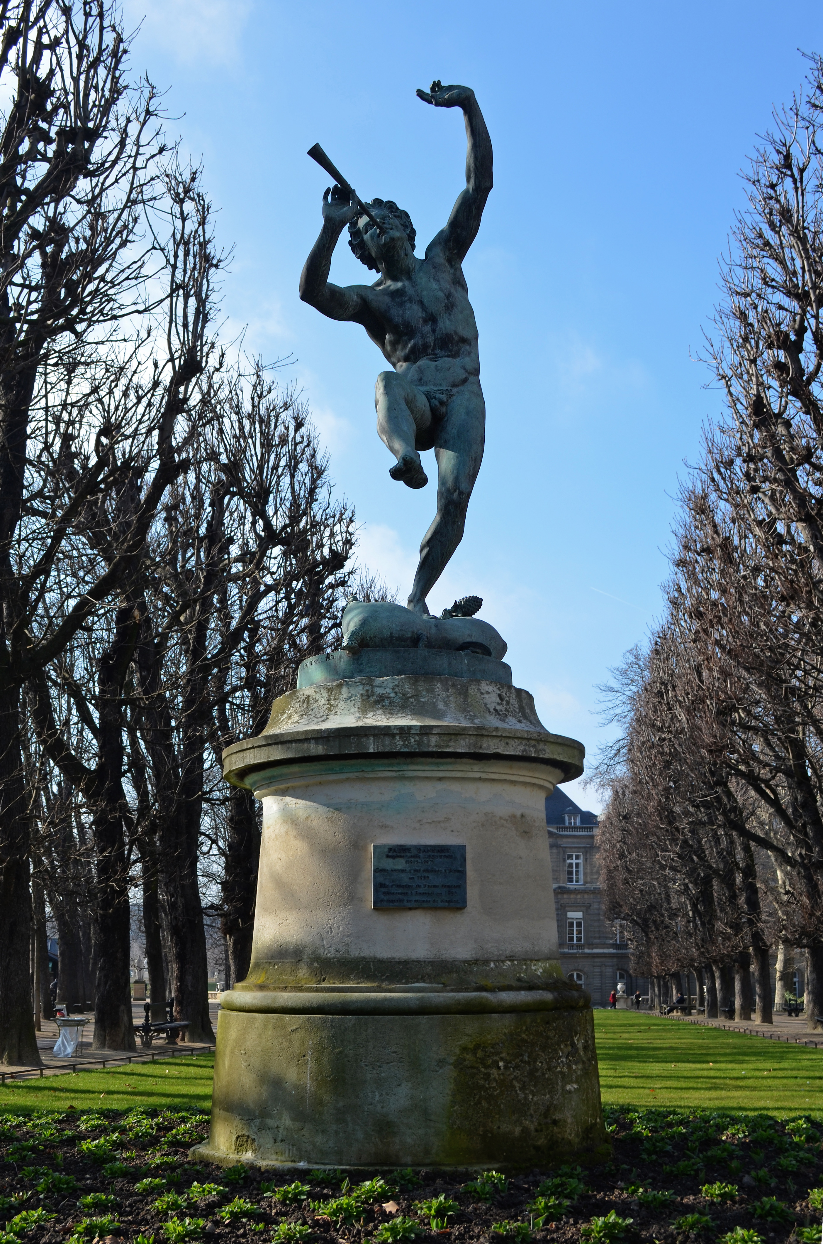 Faun dancing on a wineskin, bronze by Eugène-Louis Lequesne (1851) - Jardin du Luxembourg, Paris.